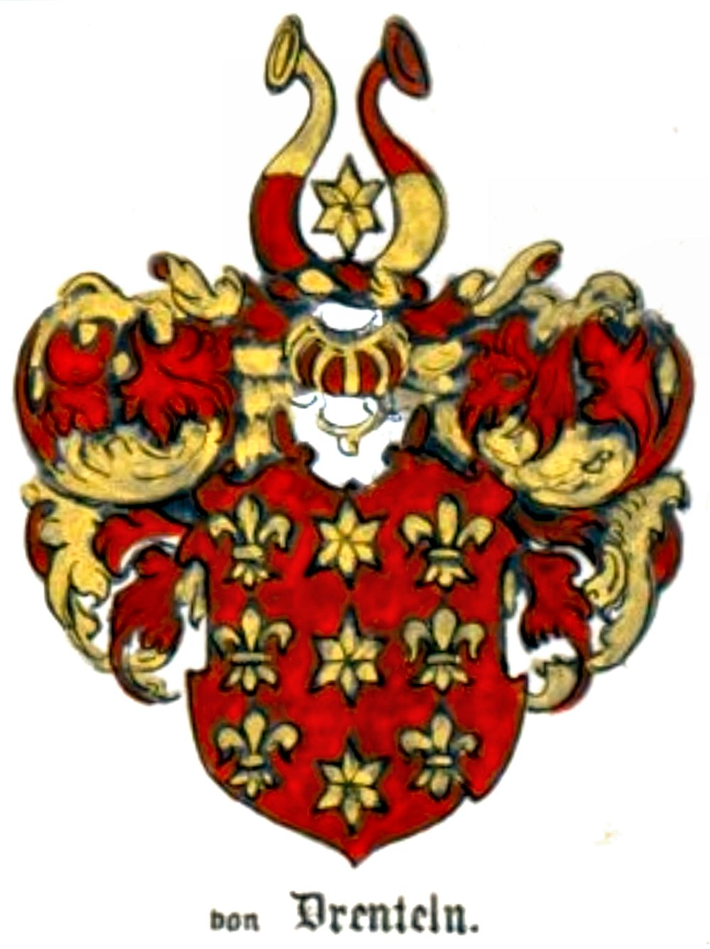 Coat of arms of Drenteln family